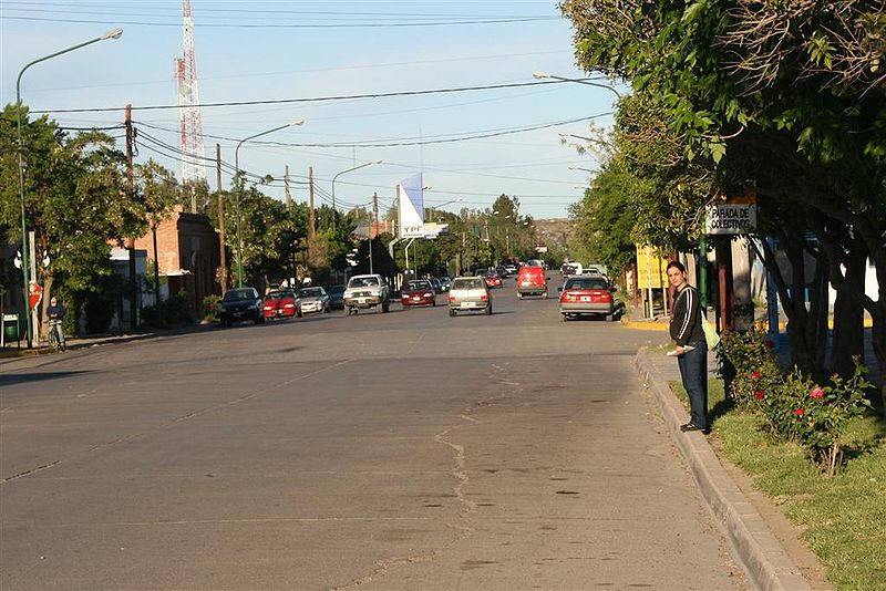 Gaiman, Chubut